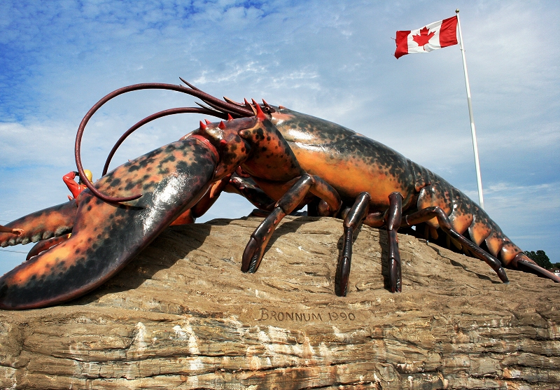 The world's largest lobster sculpture located in Shediac, New Brunswick.